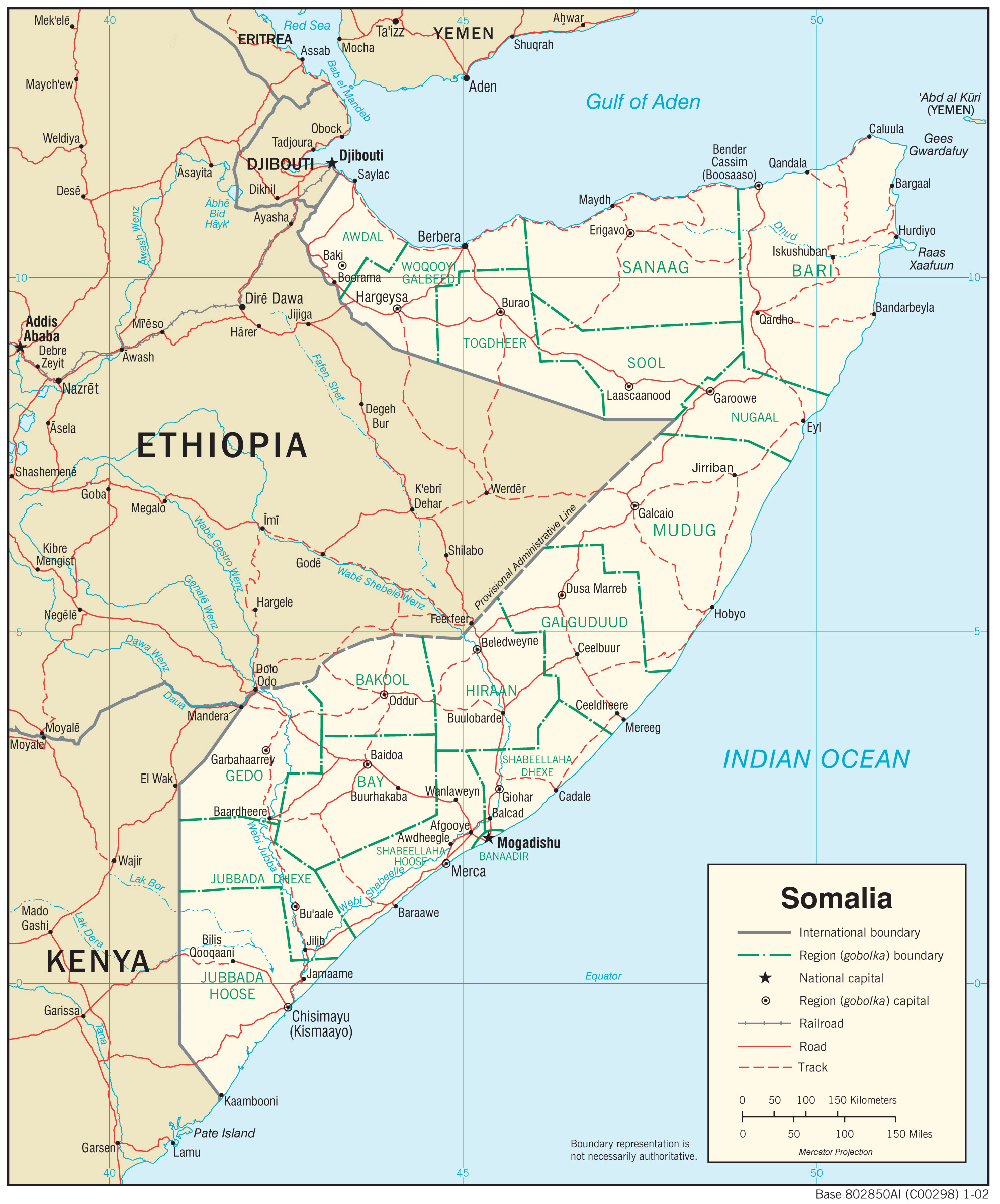 Transport system in Somalia, 2002.